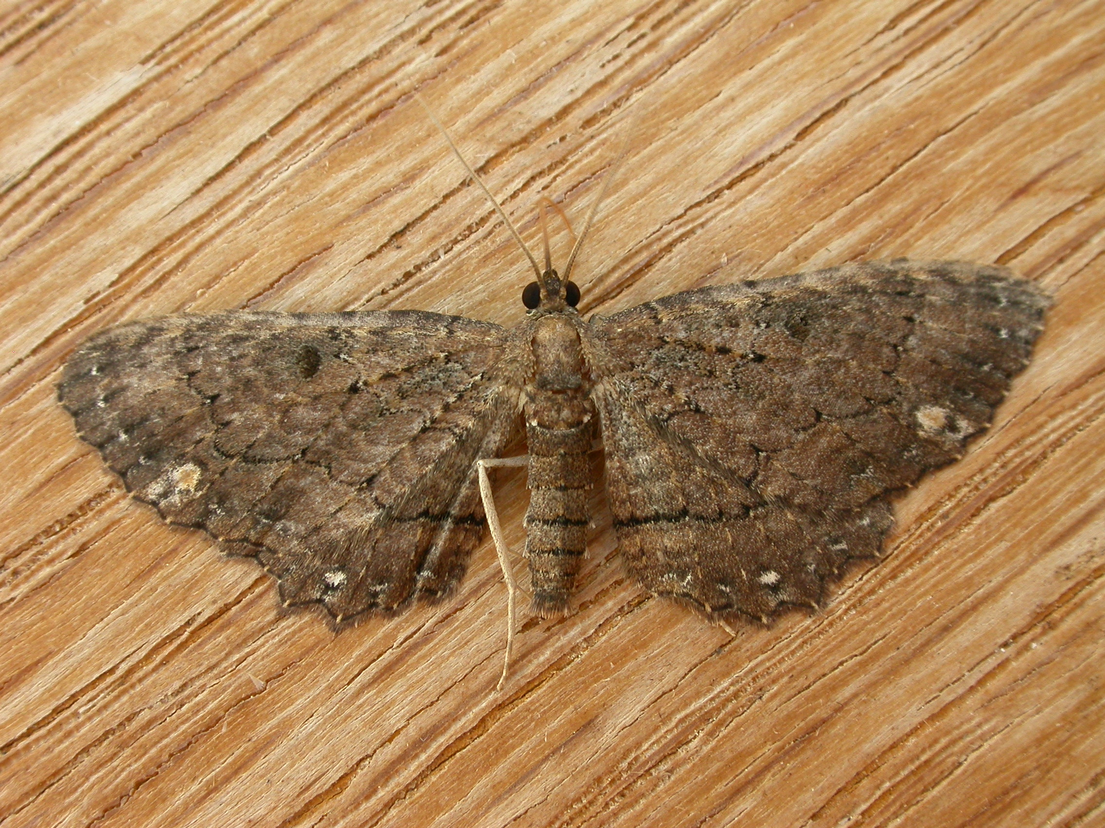 Eccymatoge fulvida (Turner, 1907), to MV light, Aranda, ACT, 20/21 November 2010